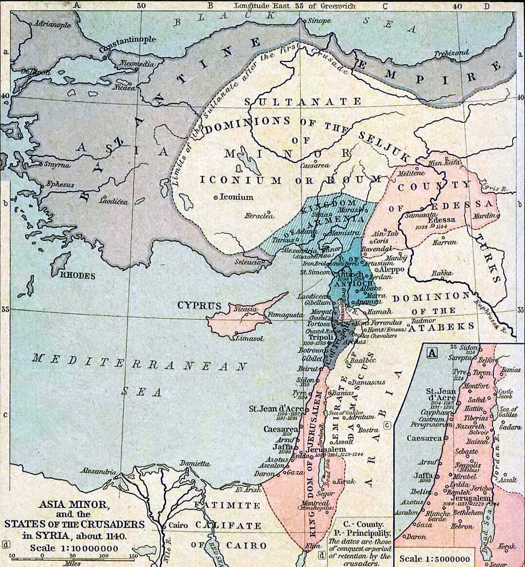 Asia Minor and the States of the Crusaders in Syria, about 1140